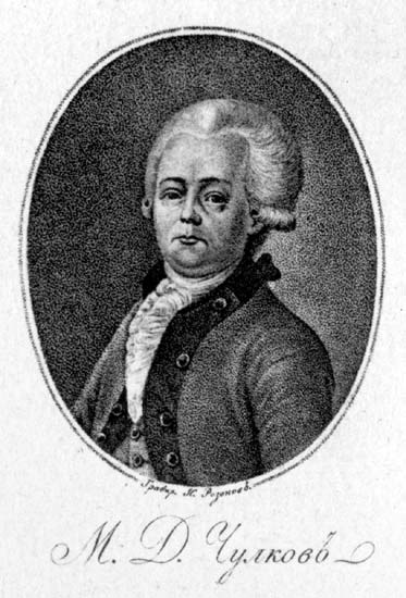 Mikhail Dmitrievich Chulkov